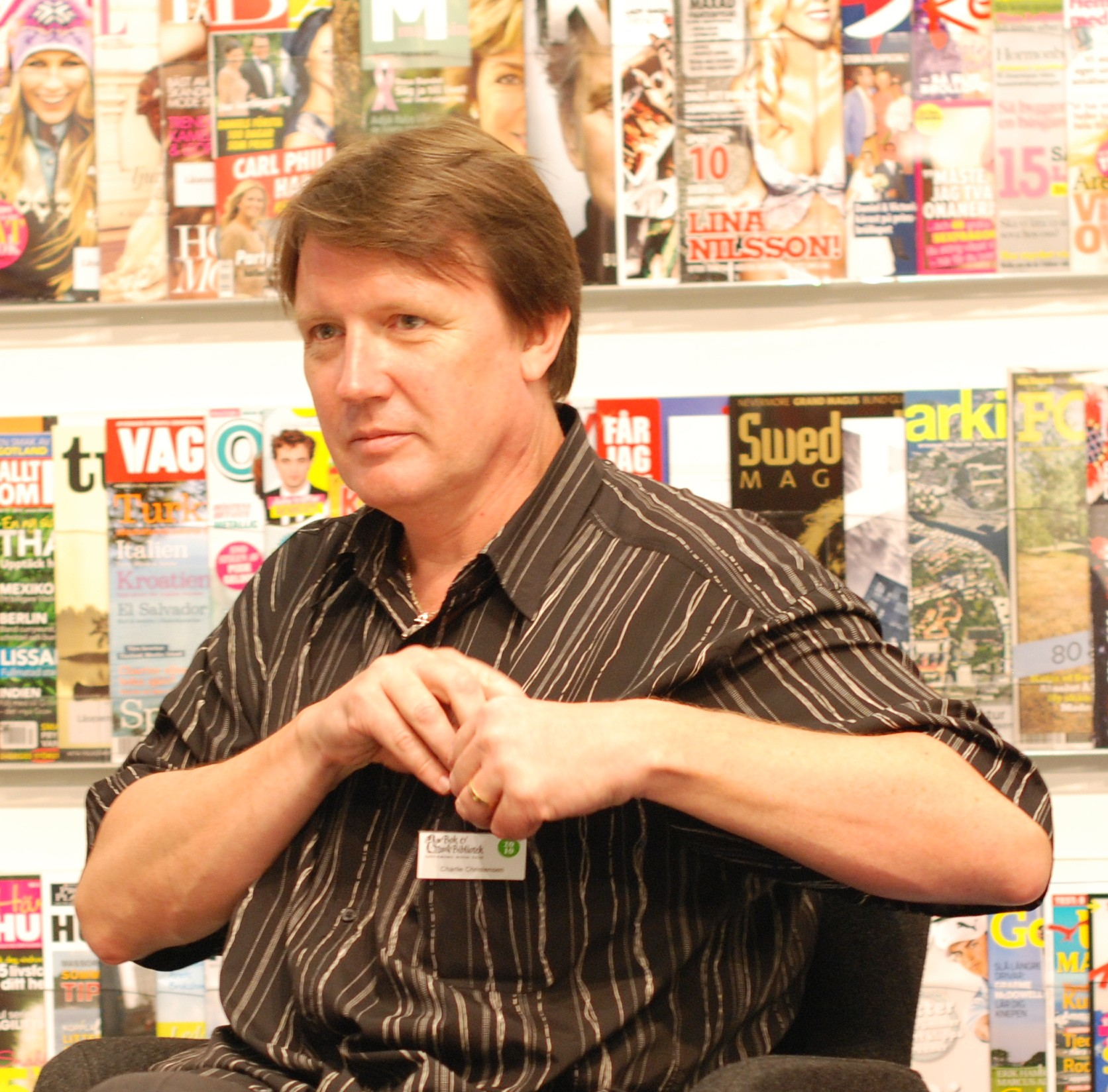 Swedish Comics Writer Charlie Christensen at Göteborg Book Fair 2010